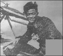 An Chang-nam's photo